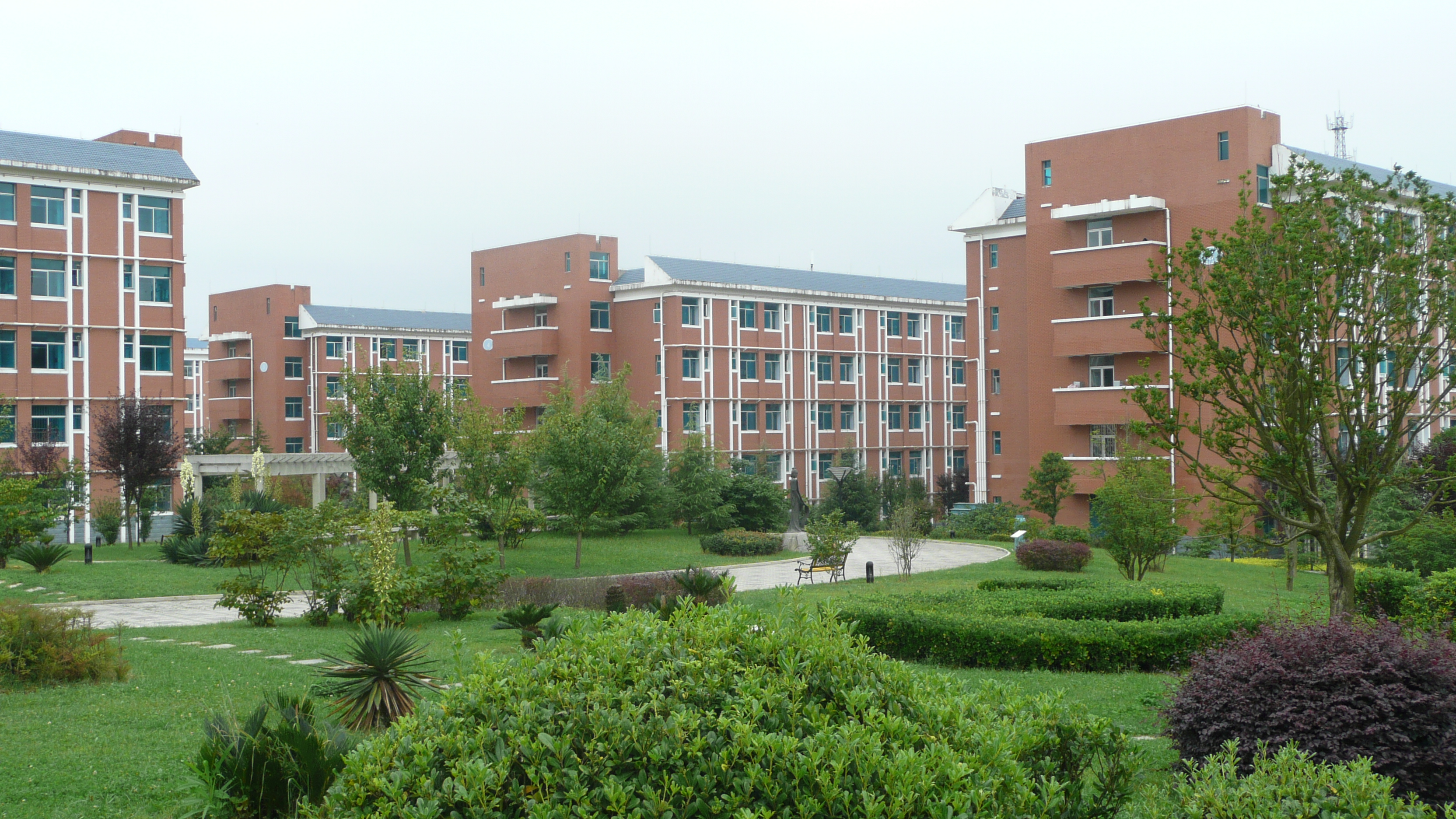 Dormitories of Guiyang No.1 High School